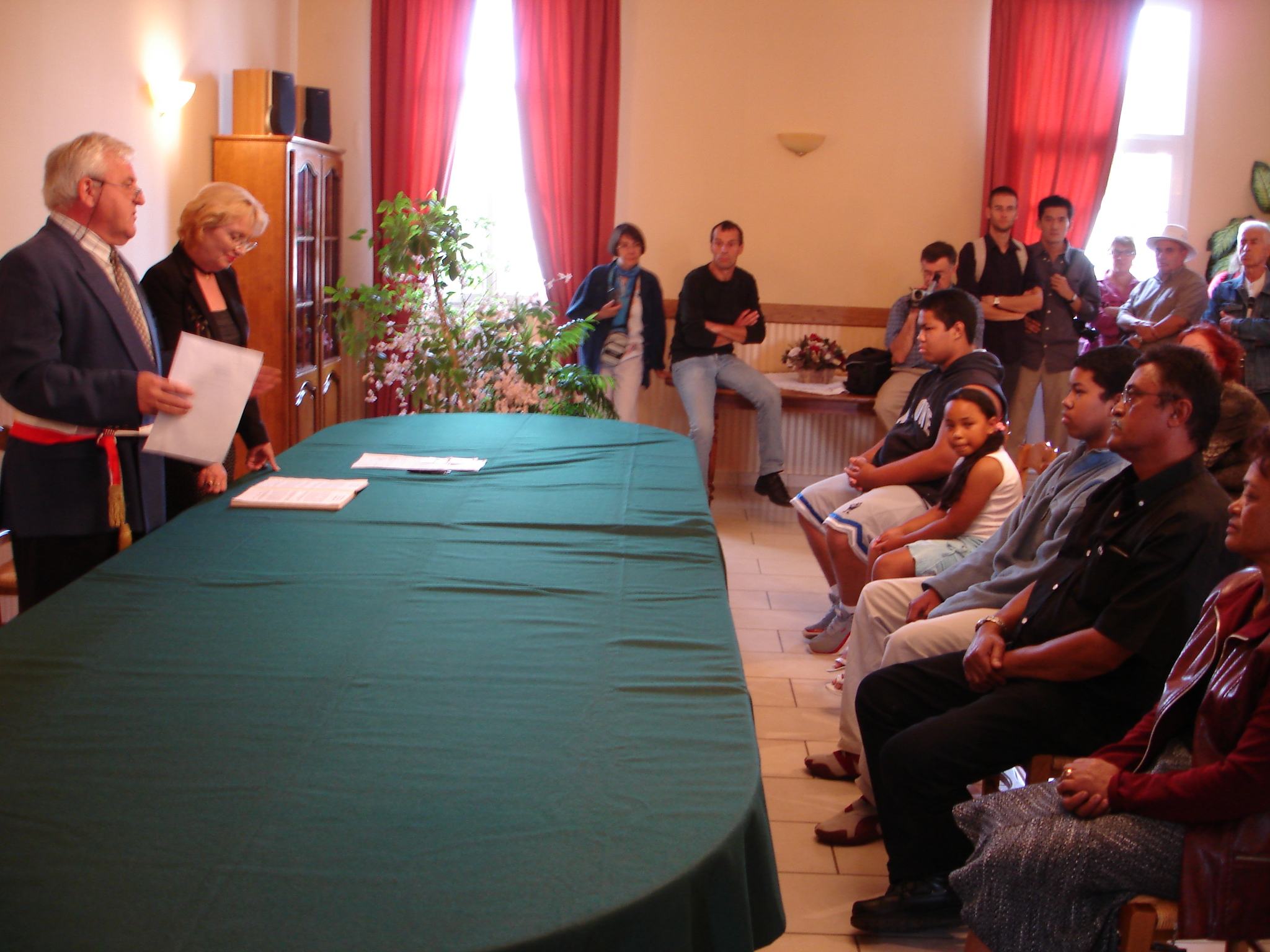 Civil baptism of a paperless malagasy family, in the city hall of Belleu (Picardy, France)